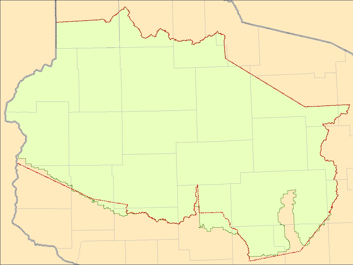 Map of the Wisconsin's portion of the 1837 Treaty of St. Peters land cession area, where the Voigt Decision boundary adjustments shown together with the original treaty boundaries.